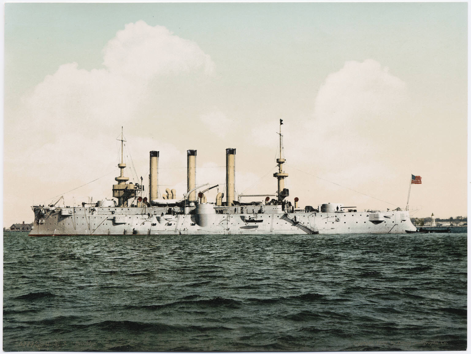 A photochrom postcard published by the Detroit Photographic Company.